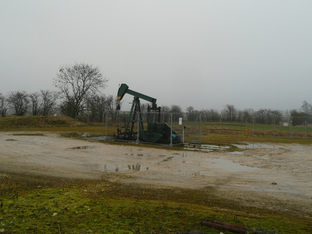 Oil well in Lincolnshire. This facility is situated to the north of 1139063.